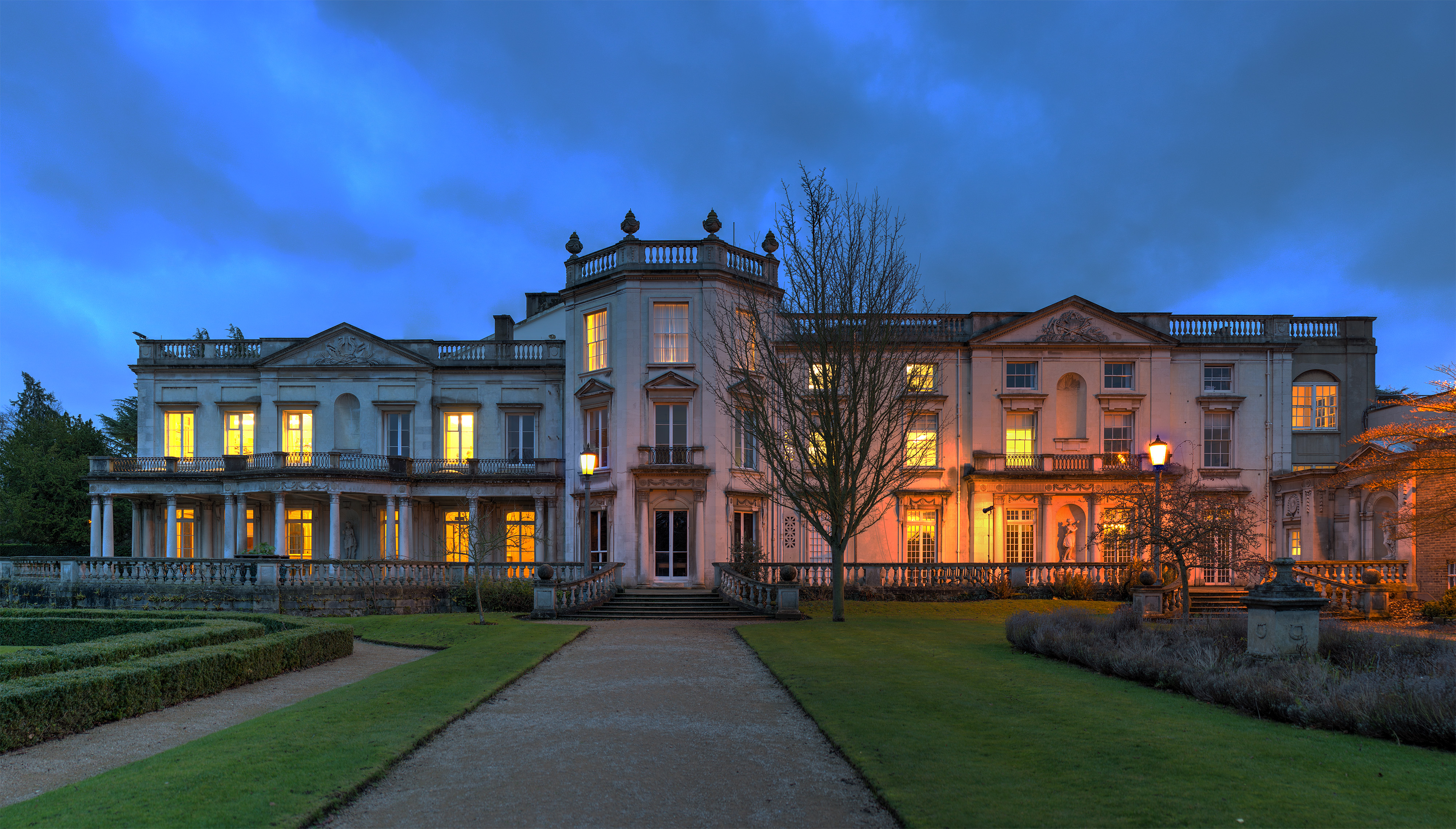 Grove House at dusk, University of Roehampton, London.